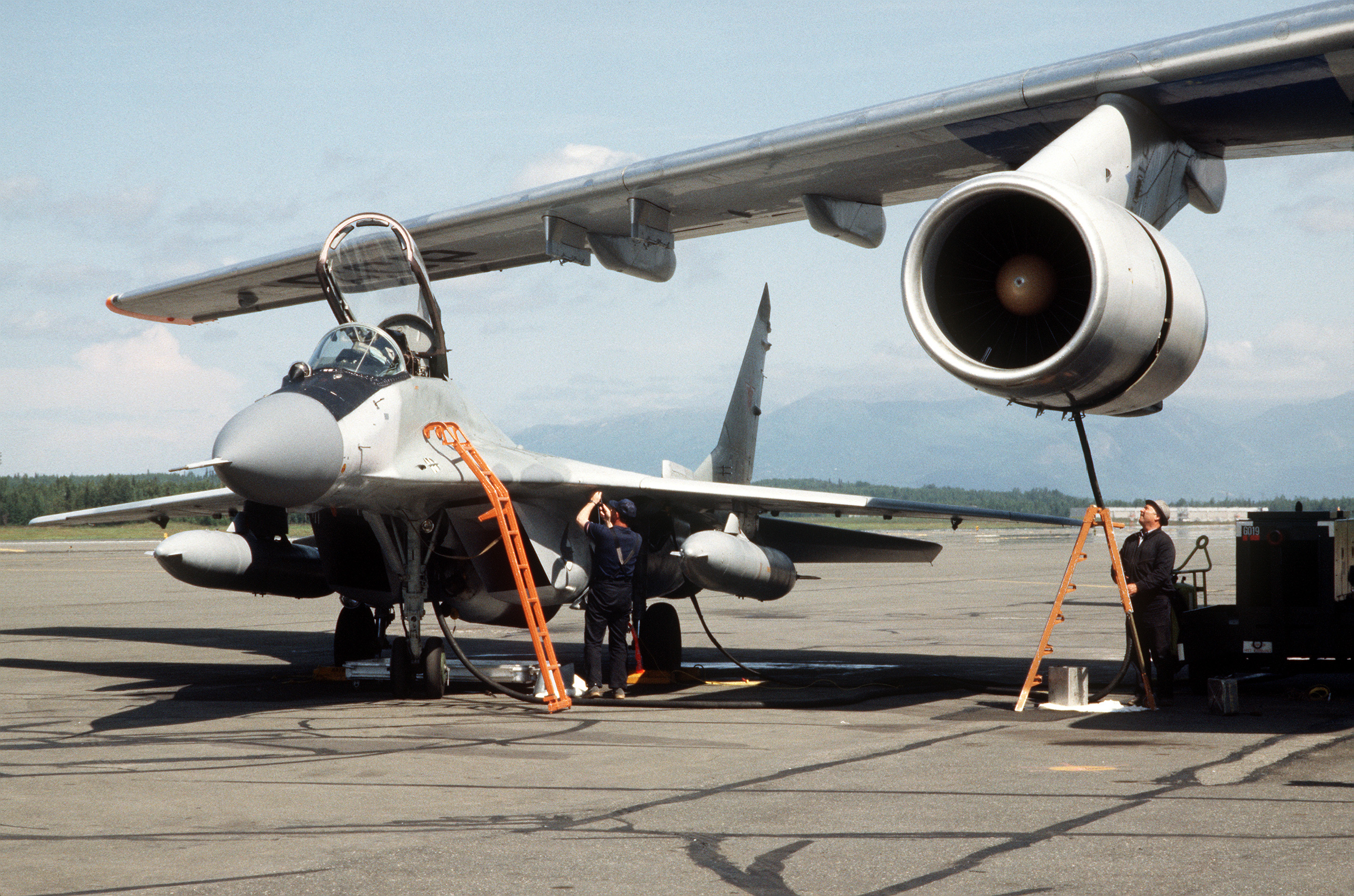 A Soviet technician works on a MiG-29A Fulcrum aircraft as it receives fuel from an IL-76MD Candid-B aircraft. The aircraft has stopped at the base while en route to an air show in Canada. Location: ELMENDORF AIR FORCE BASE, ALASKA (AK) UNITED STATES OF AMERICA (USA)